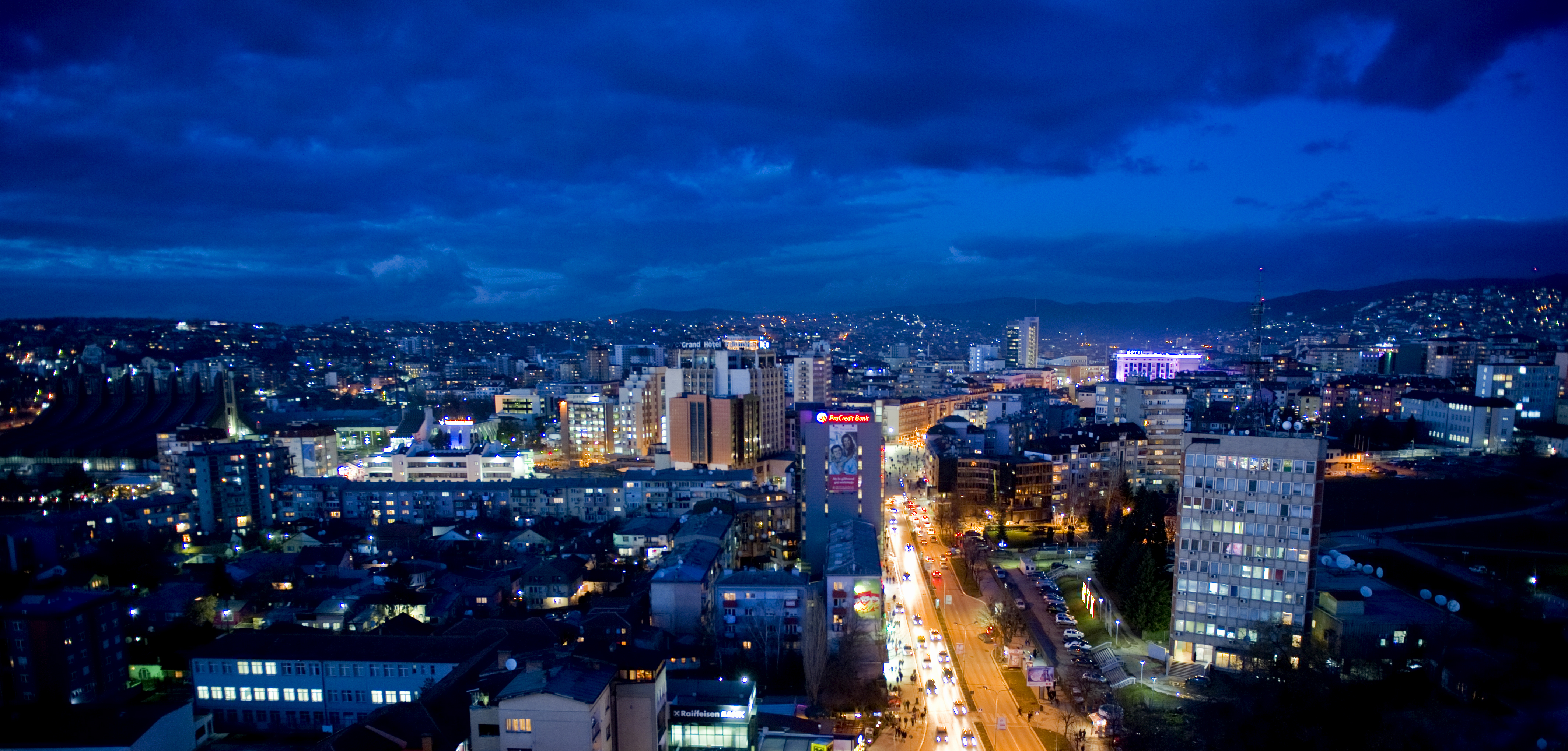 Prishtina nga Katedrala 1